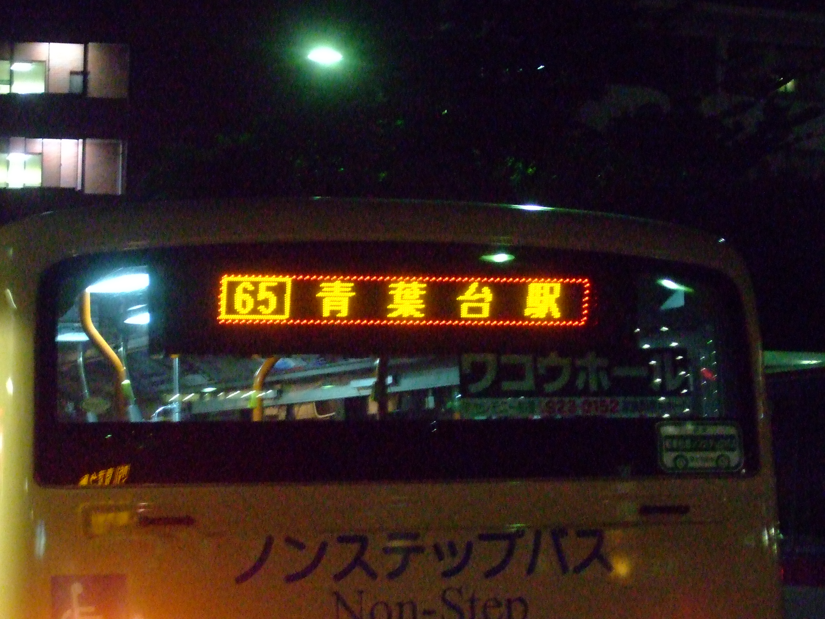 Bus destination sign of last car.